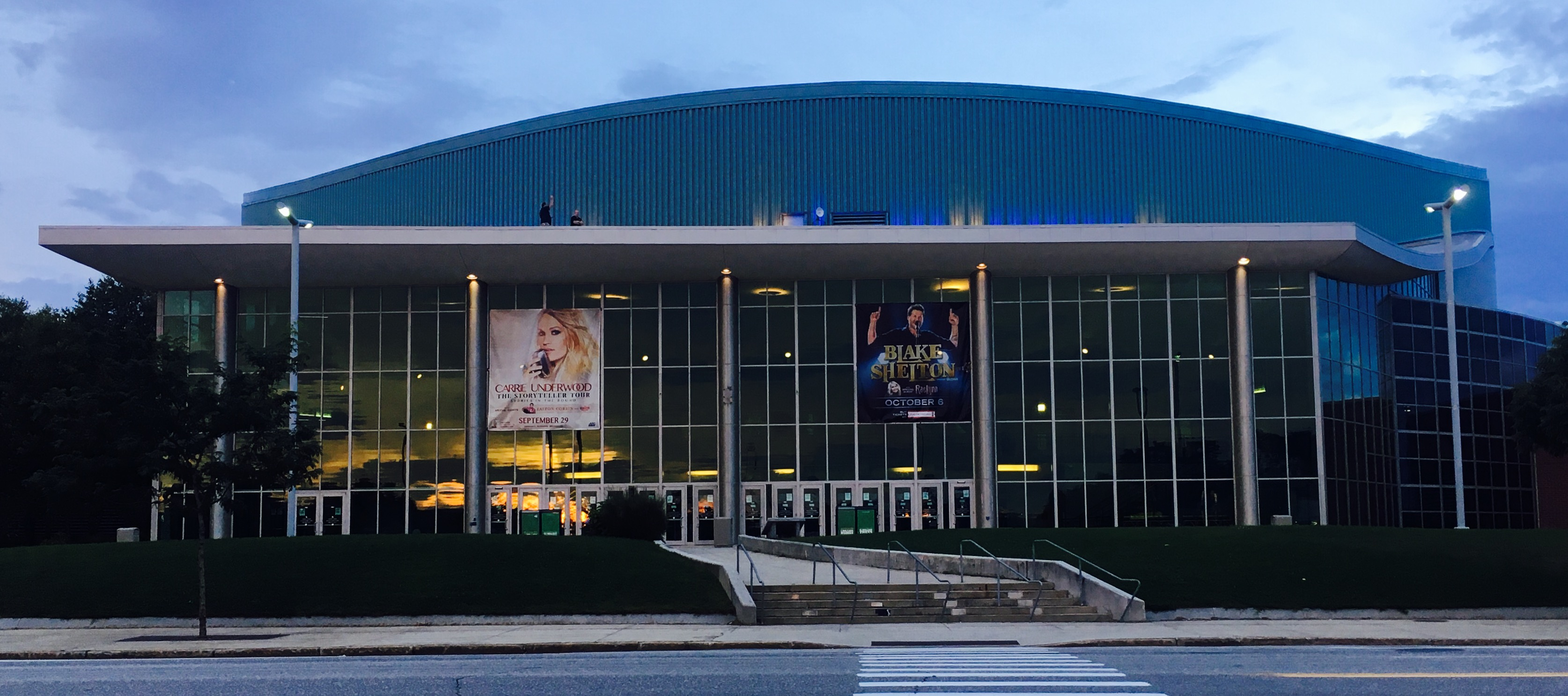 Southern NH University Arena in Manchester, New Hampshire